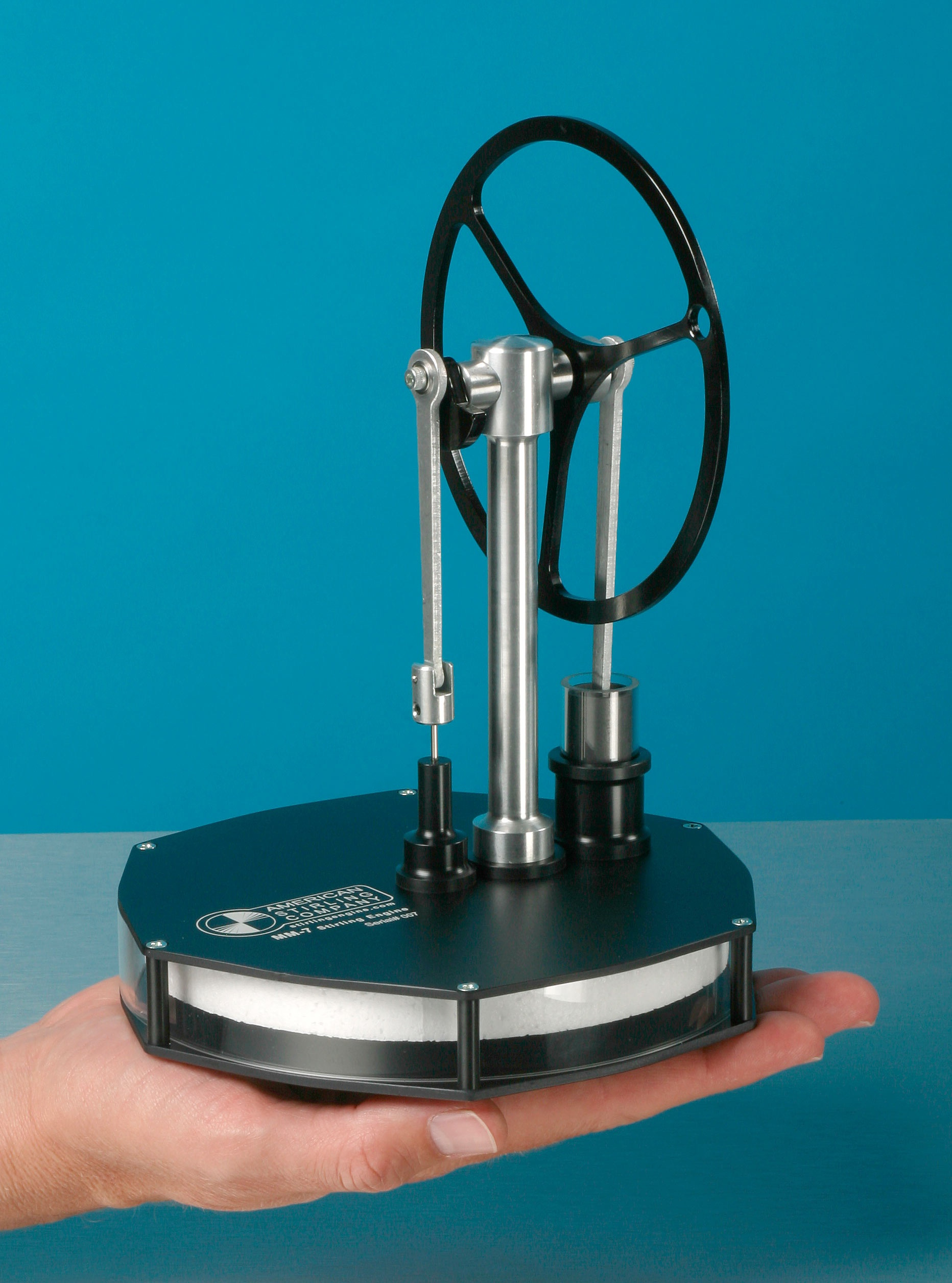 A Stirling engine that works solely with the energy taken from the temperature-difference from the surrounding air and the palm of the hand.